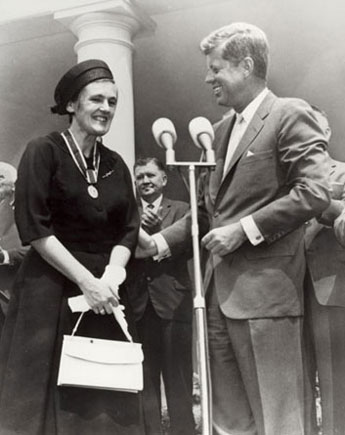 FDA medical officer Frances Kelsey receives the President's Distinguished Federal Civilian Service Award from President John F. Kennedy at a White House ceremony in 1962